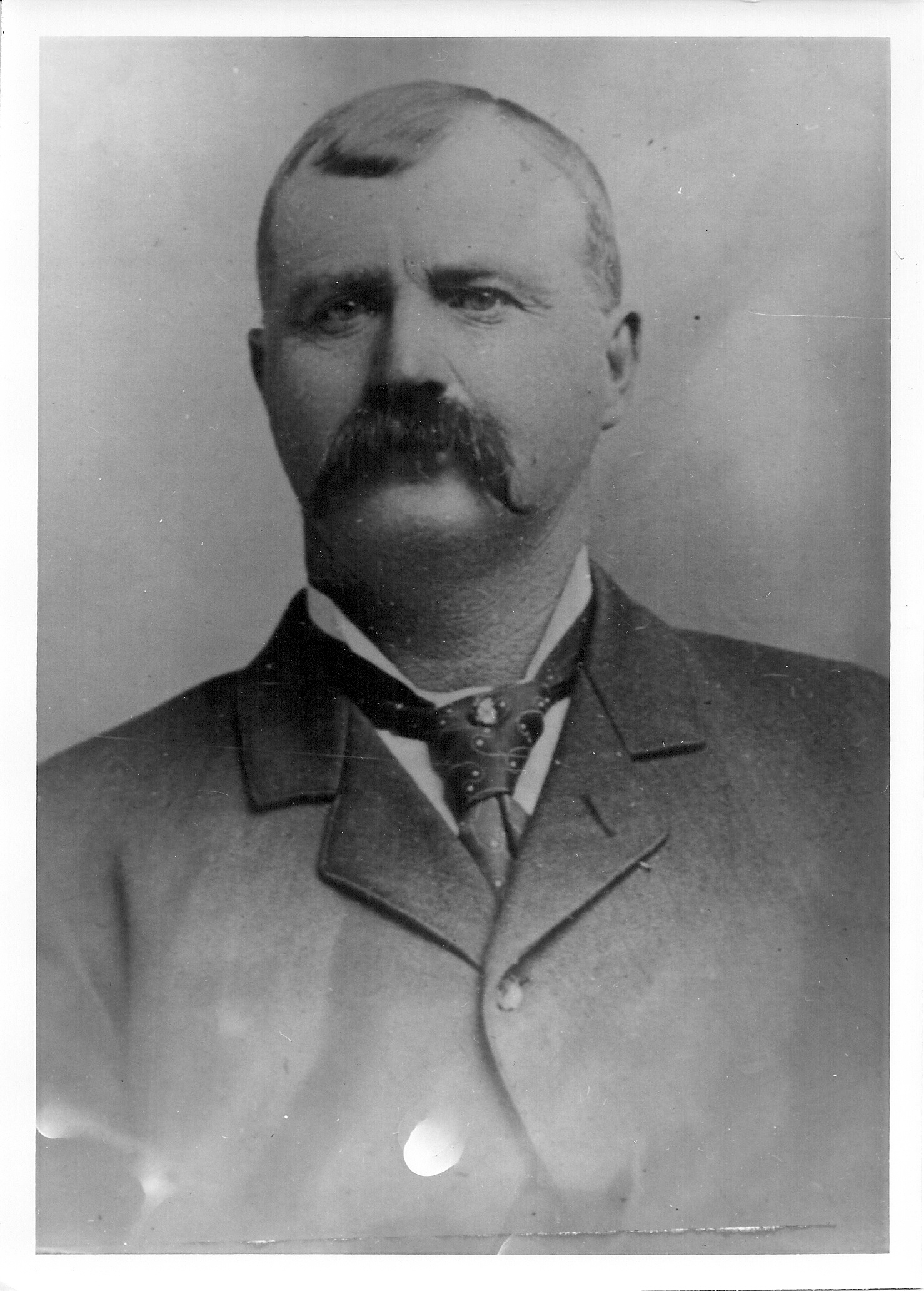 William J. Mulvenon